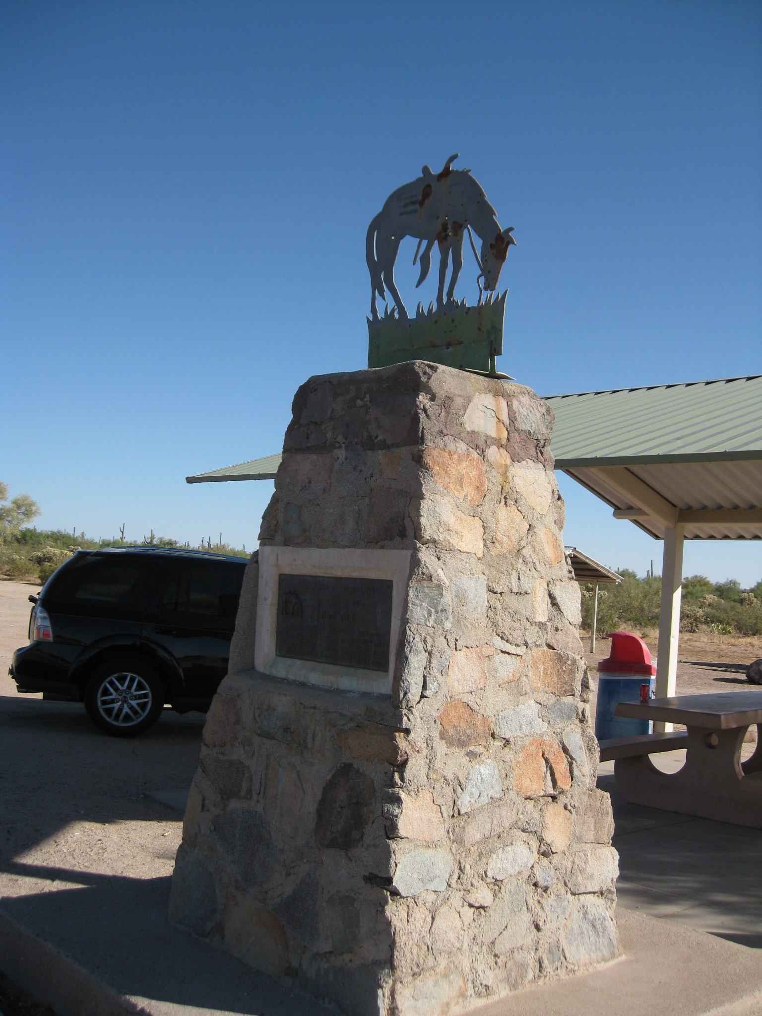 Tom Mix memorial - historical marker on Arizona highway 79, near Florence.